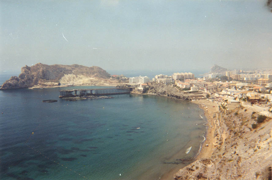 One of the beaches of Águilas, Región de Murcia (Spain)